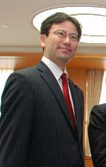 John Roos, Ambassador to Japan, presented a set of 1,000 paper cranes folded by the Nuclear Regulatory Commission employees to express support to Masaharu Nakagawa, Minister of Education, Culture, Sports, Science and Technology, Yūko Mori, Senior Vice Minister of Education, Culture, Sports, Science and Technology, and Takashi Kii, Parliamentary Secretary for Education, Culture, Sports, Science and Technology, at the Ministry of Education, Culture, Sports, Science and Technology in Chiyoda Ward, Tōkyō Metropolis on October 6, 2011.